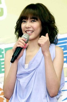 Olivia Ong at Taichung Fiesta Tourism Carnival in 2011.中文（中国大陆）: 王俪婷出席2011年台中观光嘉年华。